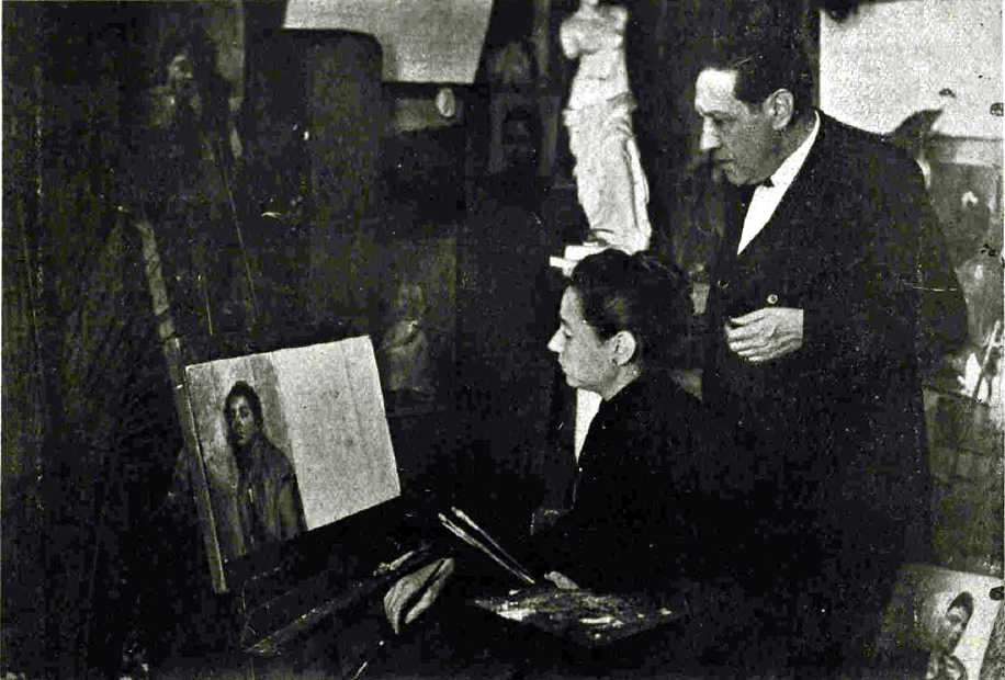 Joana Soler in her studio, accompanied by her father in 1895. Image published in the magazine "Teatre Català", no. 85, August 2, 1913.